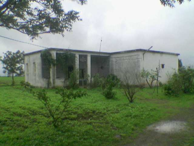 Picture of Seismograph station office situated in Savalde village near Shahada, Maharashtra